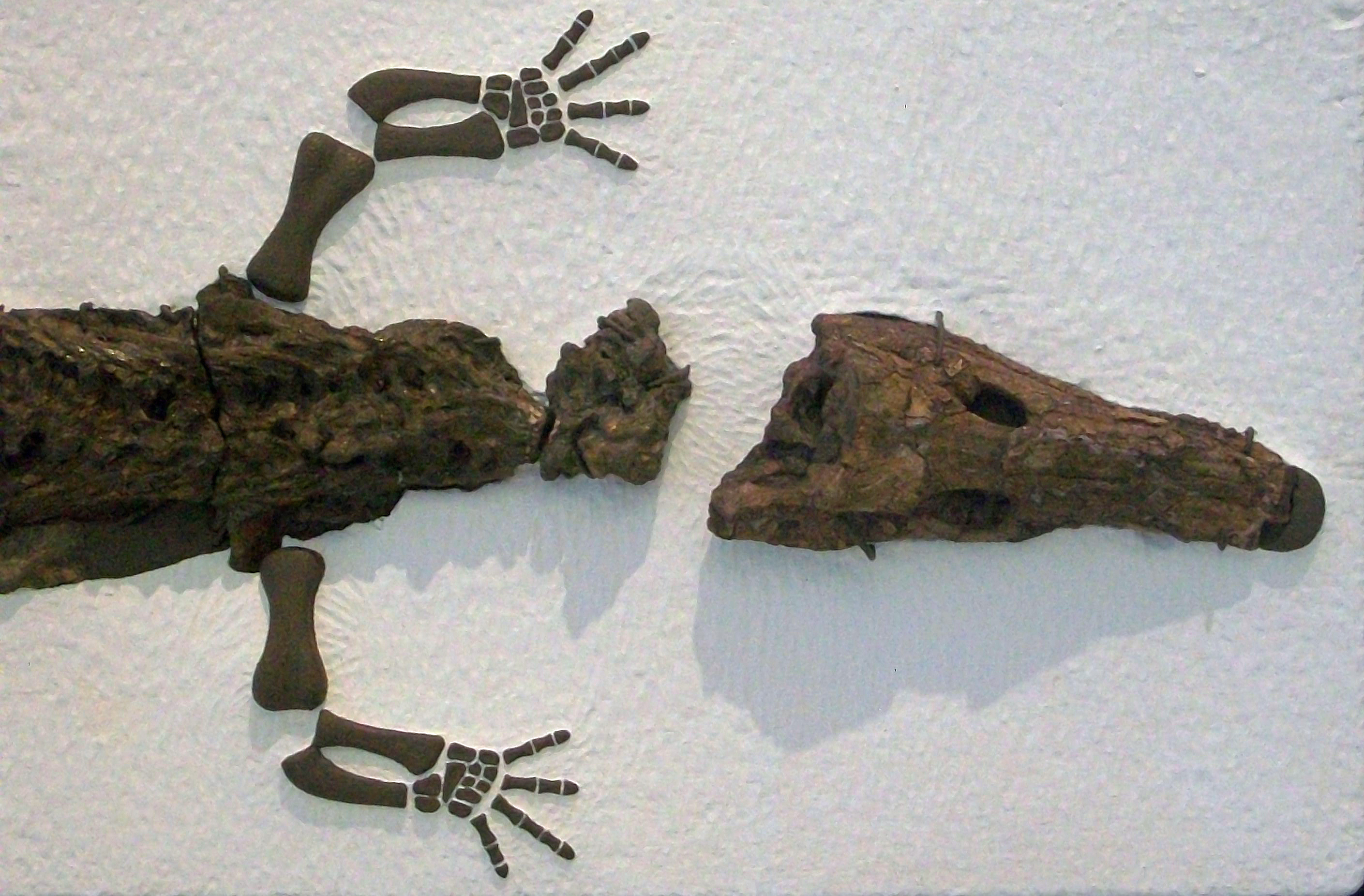 The front portion of a skeleton of Cricotus crassidens (specimen AMNH 4550) in the American Museum of Natural History.